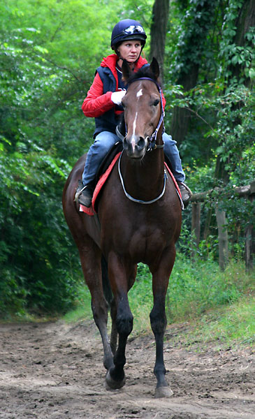 Overdose the hungarian undefeated champion with Barbara Budinszky. Owner Zoltan Mikoczy.